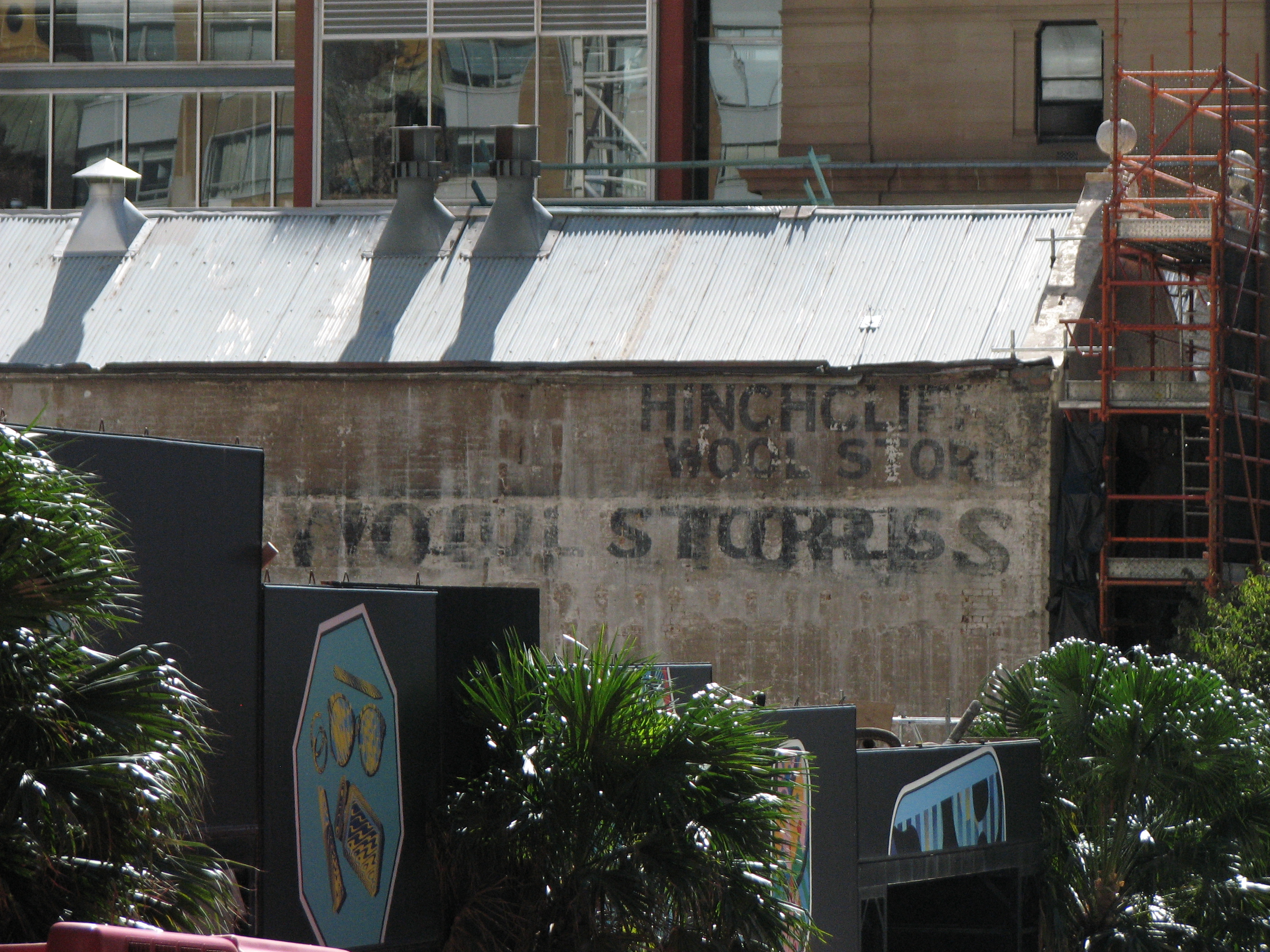 Hinchcliff House, 5-7 Young Street, Sydney, New South Wales is listed on the New South Wales Heritage Register. The photograph shows the site being redeveloped in 2019.